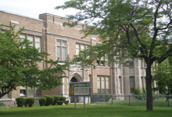 J.E. Clack Prep Academy